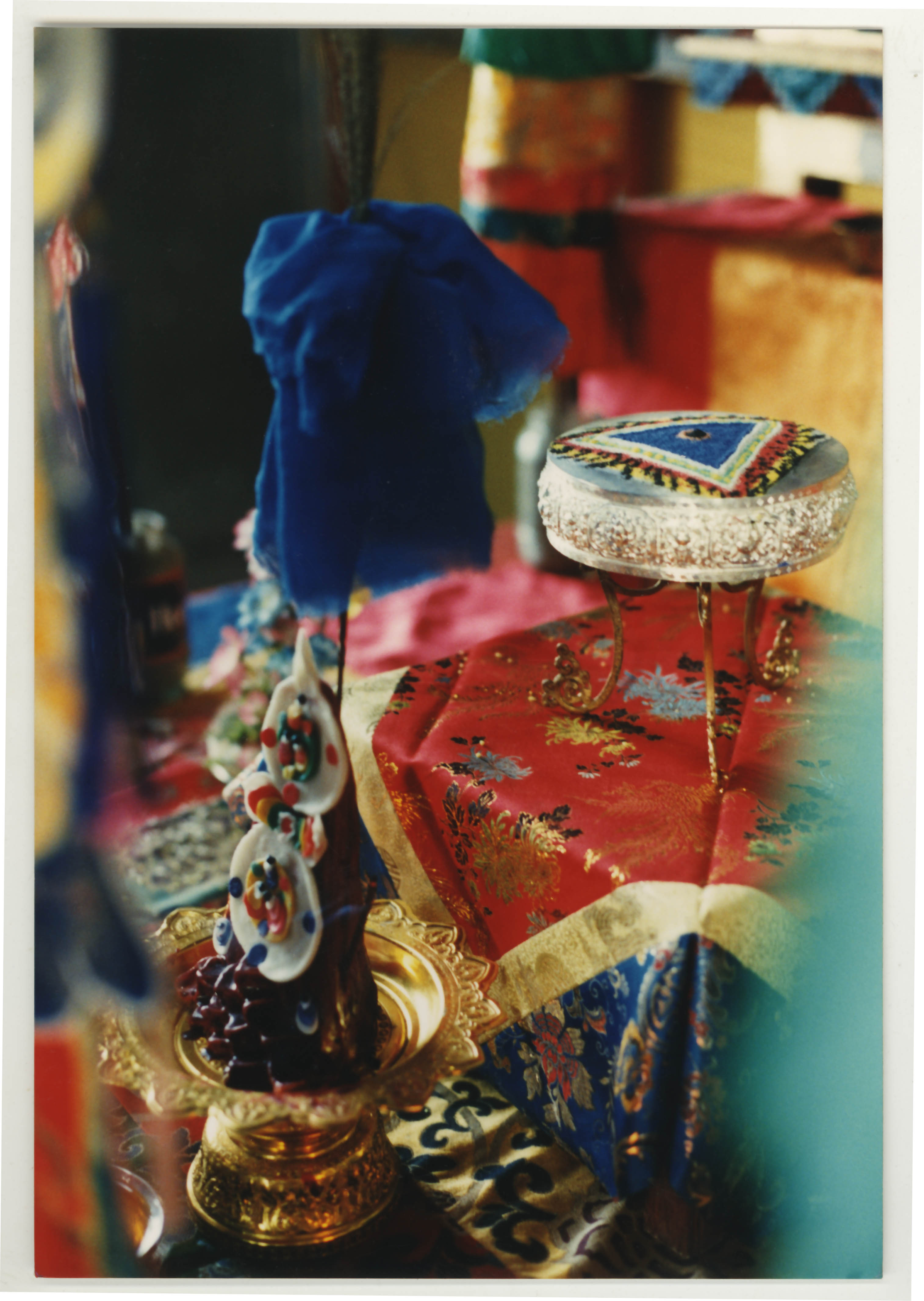 Vajrakilaya Empowerment, Torma Offering, deity sand mandala on a silver mandala plate, with blue cloth and silks, Tharlam Monastery of Tibetan Buddhism, Bodha, Kathmandu, Nepal 1990 boddhaa-19.jpg